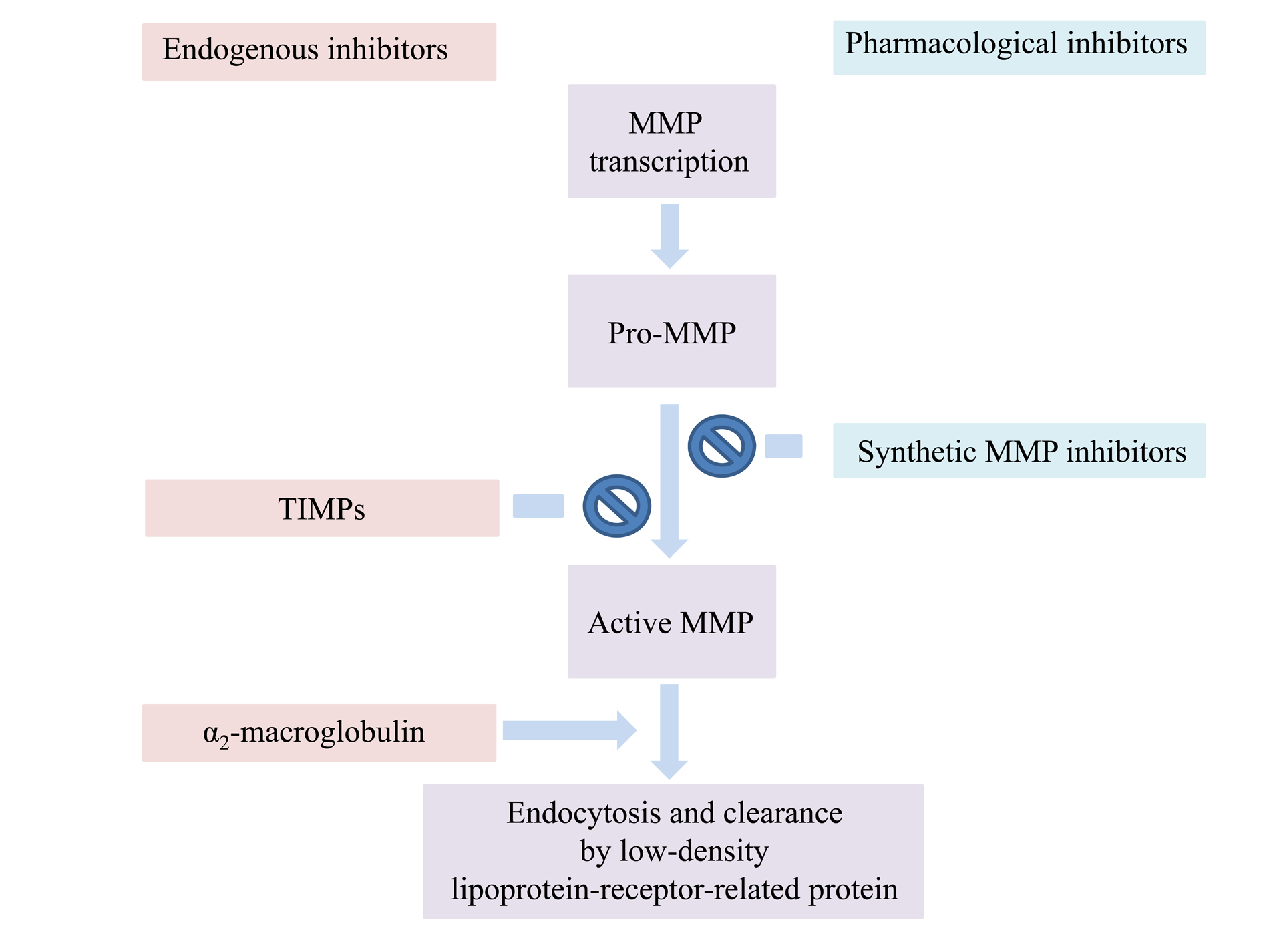 EndogenousAndPharmacologicalInhibitorsOfMMPReduziert